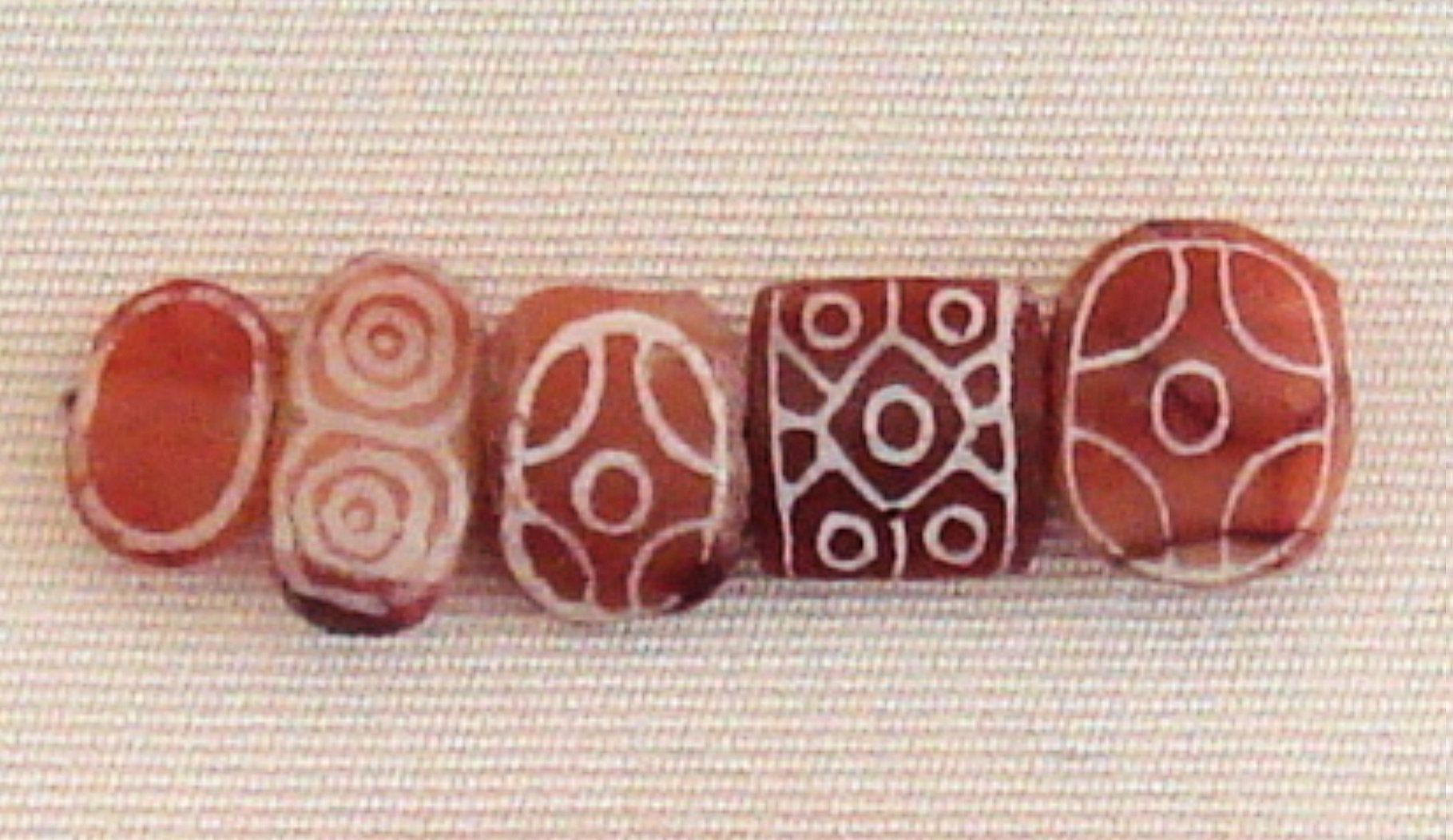 Indus carnelian beads with white design imported to Susa in 2600-1700 BCE LOUVRE Sb 13099